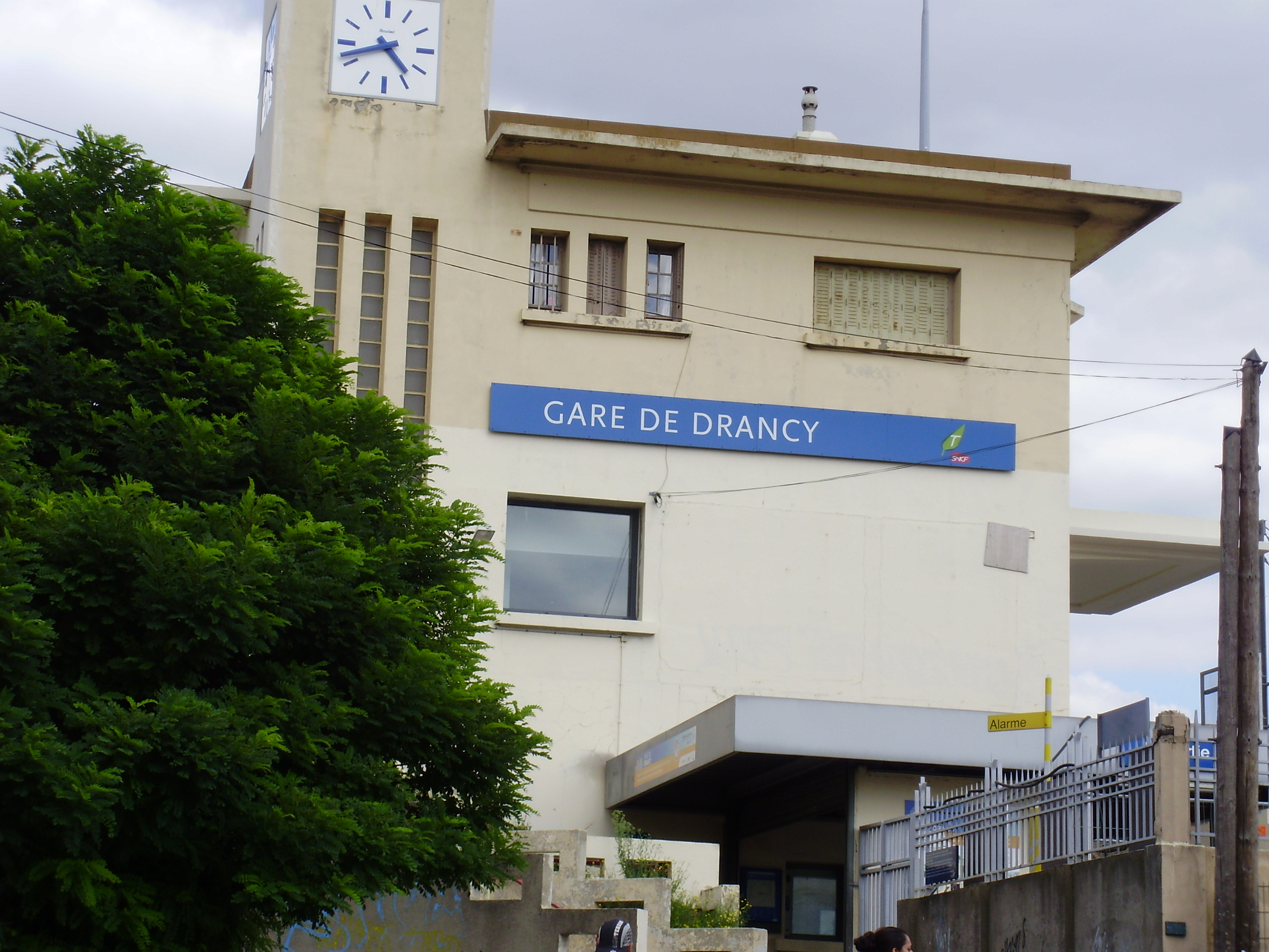 Drancy station, Seine-Saint-Denis, France, seen from the Chemin latéral in the north of tracks